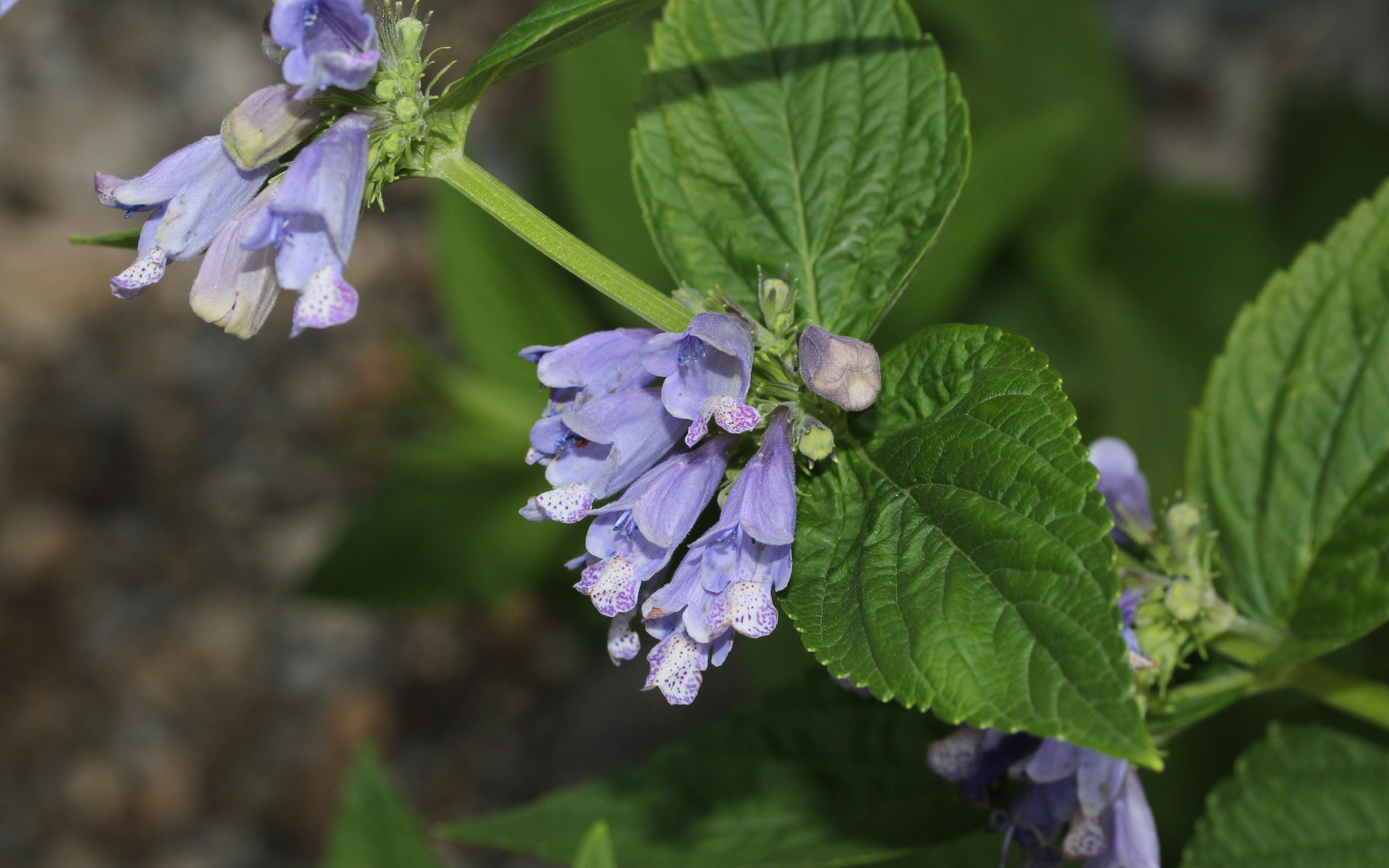 Nepeta subsessilis in Mount Shirouma, Hakuba, Nagano prefecture, Japan.